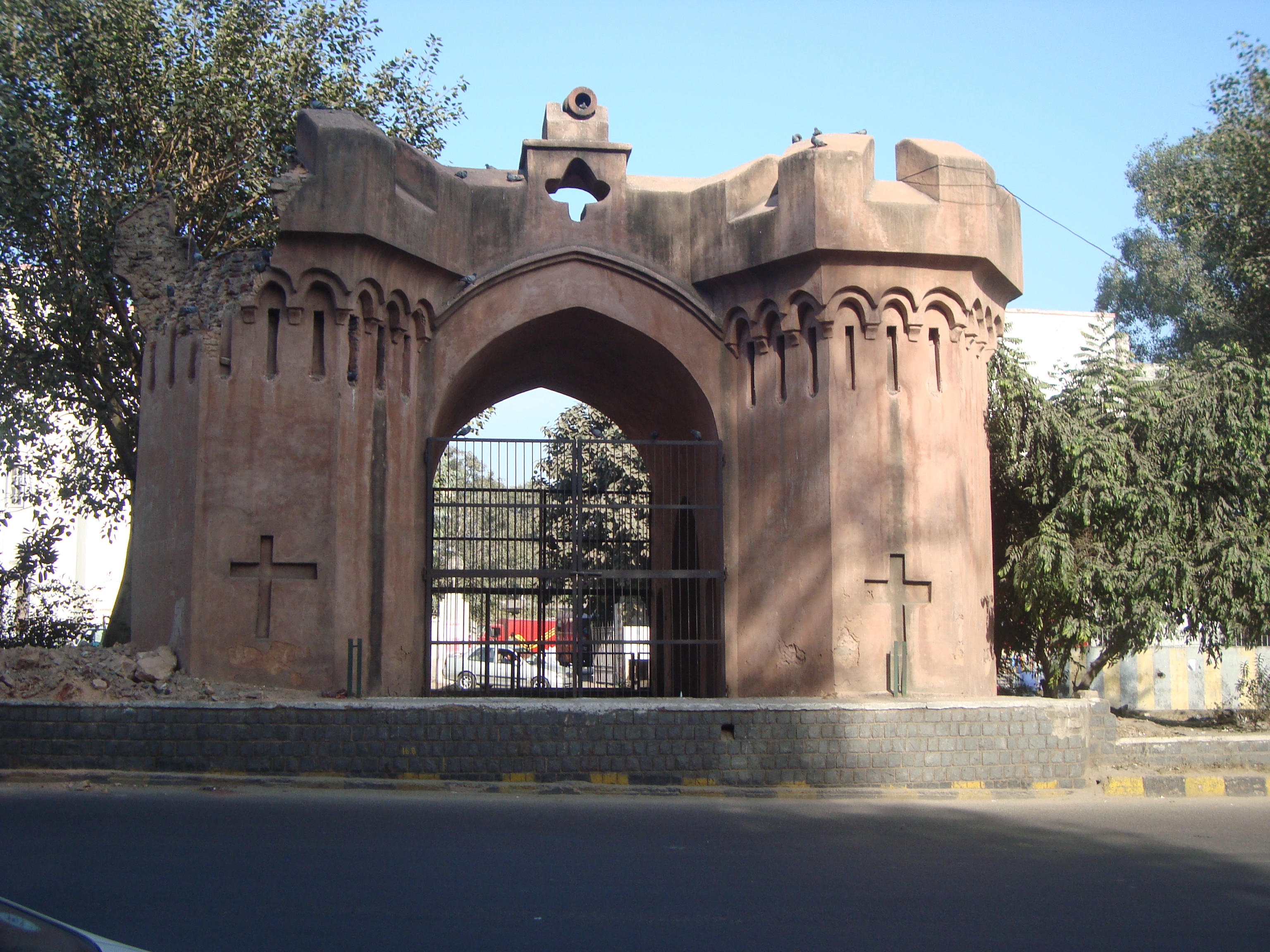 British Magazine, Delhi - Eastern portion